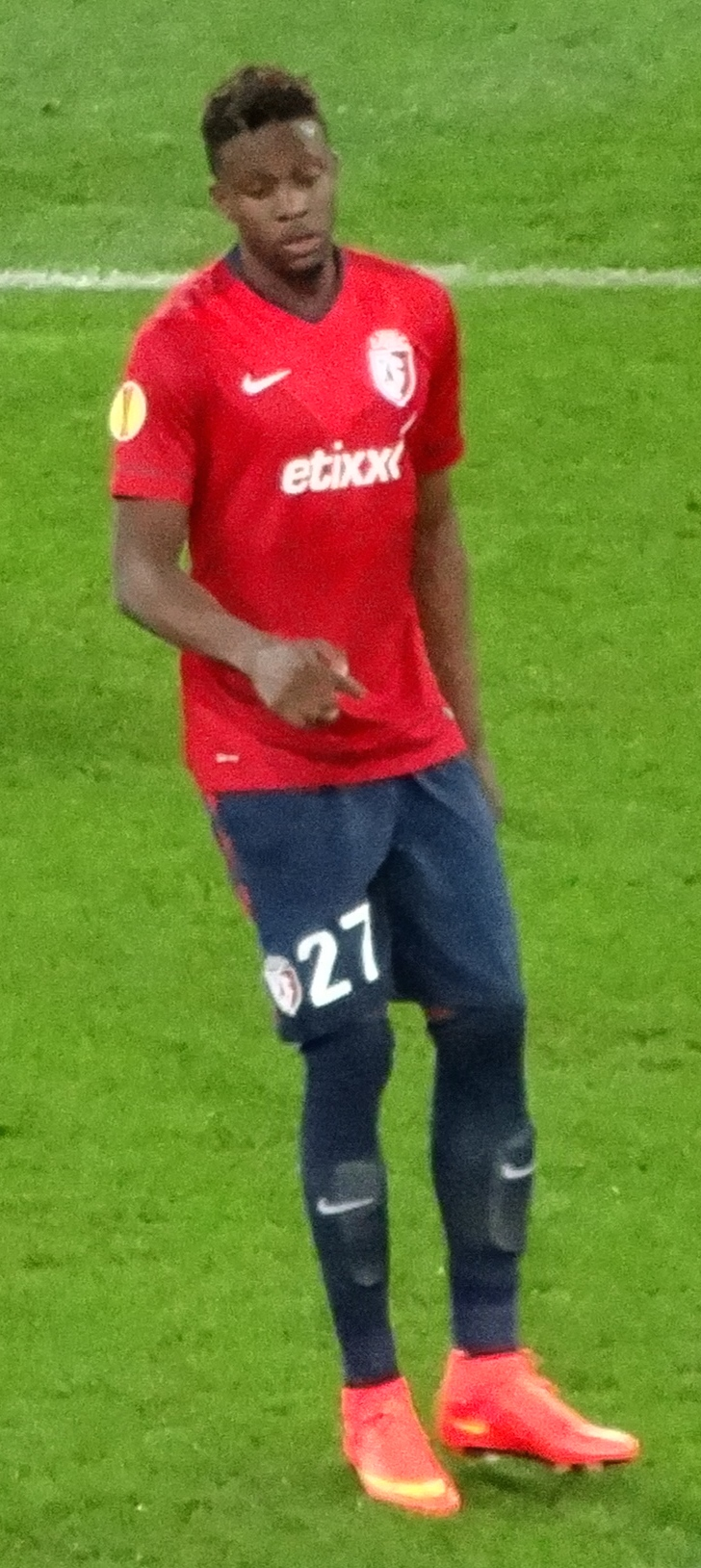 Divock Origi (LOSC Lille)